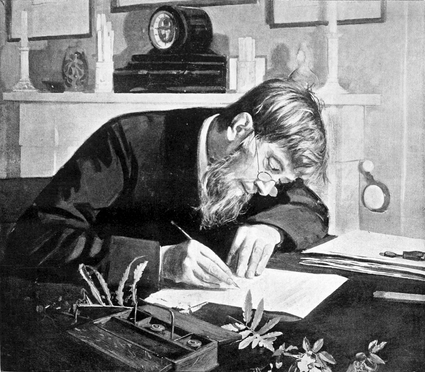 John Gilbert Baker around 1893